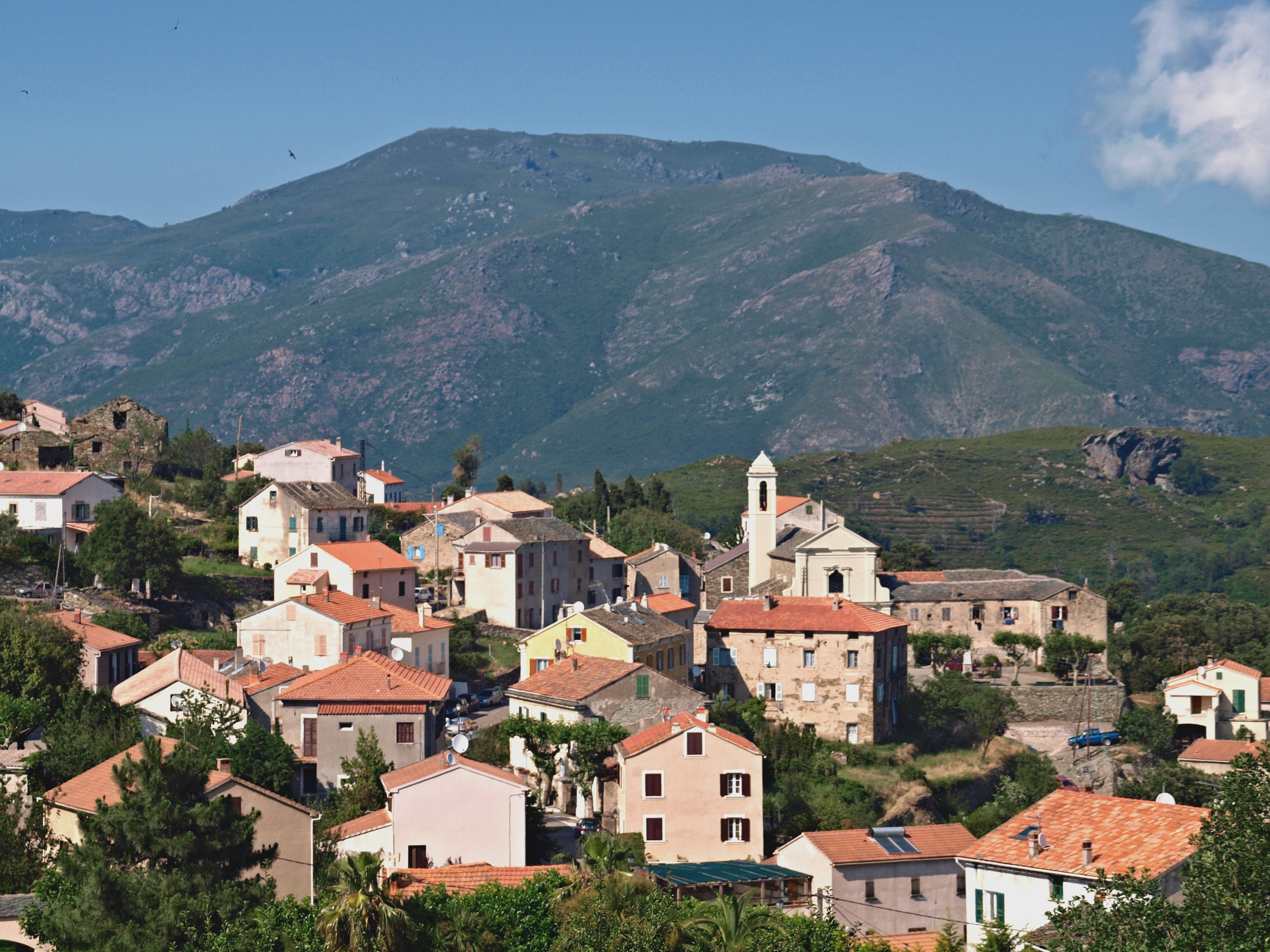 Murato (Corsica) - Village and San Michele Church (12th century)